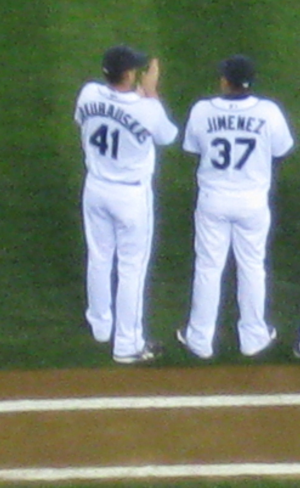 Chris Jakubauskas and César Jiménez on Opening Day 2009.